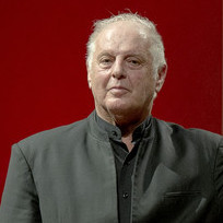 Martha Argerich alongside Daniel Barenboim at the Colon theatre